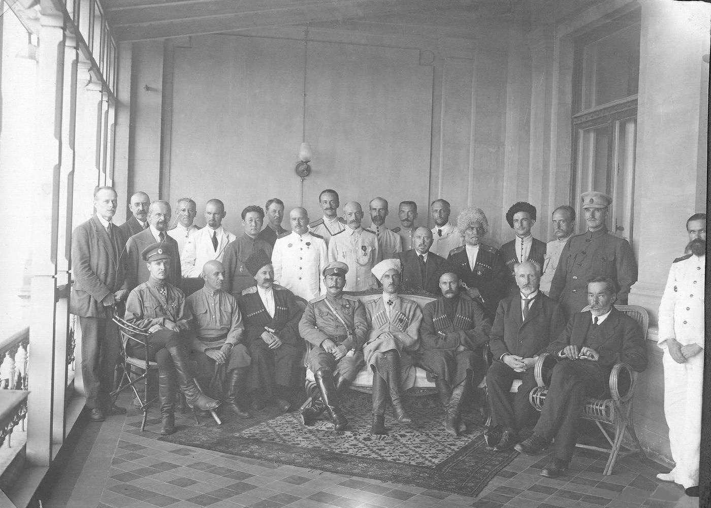 The Government of South Russia. Crimea, Sevastopol, 1920. Sitting, from left to right: 1 - Chief of Staff Major General P.N. Shatilov; 2 - Astrakhan Ataman N. V. Lyakhov; 3 - Terek Ataman Lieutenant General G. A. Vdovenko; 4 - Don Ataman Lieutenant General A. P. Bogaevsky; 5 – Сommander- in-Chief of the Russian Army General P. N. Wrangel; 6 - Deputy Kuban Ataman engineer V. N. Ivanis; 7 - Assistant of Сommander- in-Chief, Head of Government A. V. Krivoshein; 8 – Acting Chairman of the Don Government Korzhenevskiy. Standing, from left to right: 1 – Acting Director of Council Affairs by Сommander- in-Chief A. G. Sergeenko-Bogokutskiy; 2 – Chief of Political Office of the Department of Foreign Affairs B. A. Tatishchev; 3 – Acting Director of Foreign Affairs Prince G. N. Trubetskoy; 6 - Chairman of the Astrakhan Government Sanji-Bayanov; 8 - Deputy Chief of the Naval Department Counter Admiral S. V. Evdokimov; 9 – Acting Chief of the Military Department Major General V. P. Nikolskiy; 10 – Acting Head of Finance B. V. Matusevich; 11 - Head of the Department of Justice Senator N. N. Tagantsev; 12 – Acting Director of the Civil Department S. D. Tverskoy; 13 - Head of the Department of Trade and Industry V. S. Nalbandov; 14 - State Comptroller N. V. Savich; 15 - Vice-Chairman of the Kuban Government Major General I. A. Zakharov; 16 - Chairman of the Terek Government Bukanovskiy; 17 - Head of the Department of Agriculture and Land Management Senator G. V. Glinka; 18 - Head of Office Supplies Lieutenant General P. E. Vilchevskiy.